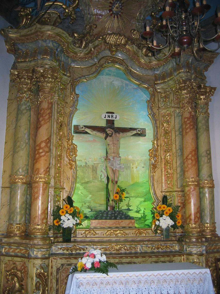 Beach of Miramar – Chapel of Senhor da Pedra - Vila Nova de Gaia - Portugal